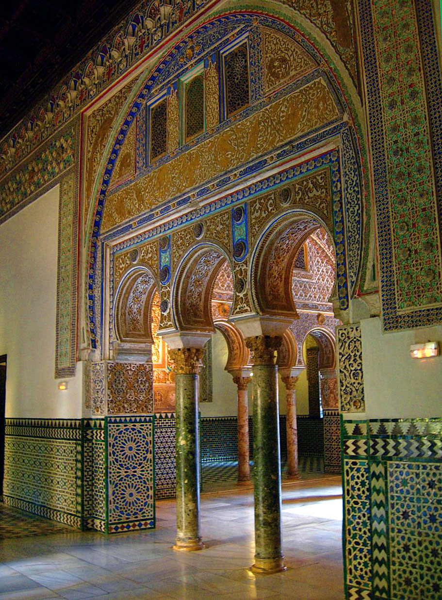 Alcázar of Seville arch